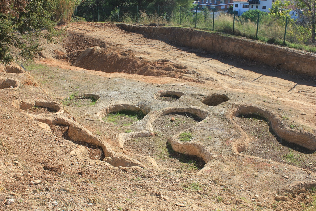 Poblat iberic Ca n'Oliver: Sitges